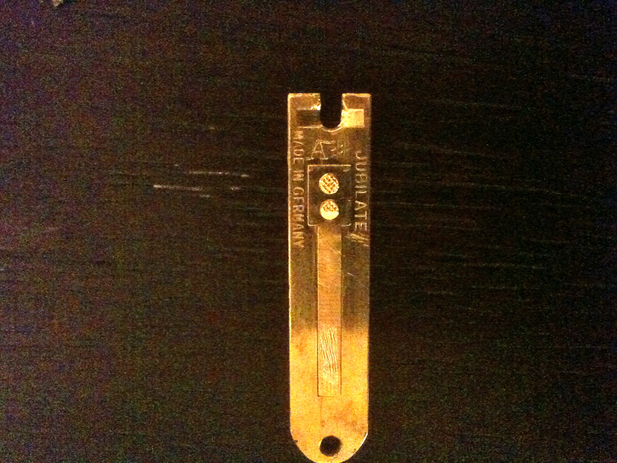 Note the distinct shape of the reed with the rounded shape on the tongue end. The words Jubilate and Made in Germany are stamped on each individual reed. The hole and notch were drilled in the reed casing at the factory to serve the Indian harmonium market that requires screwing the reeds onto the reed board over the air holes under the tongues.